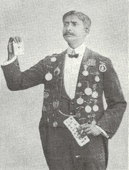 Magician Ganapati Chakraborty showing his tricks with a pack of cards. He is wearing a suit decorated by the medals that he had won.